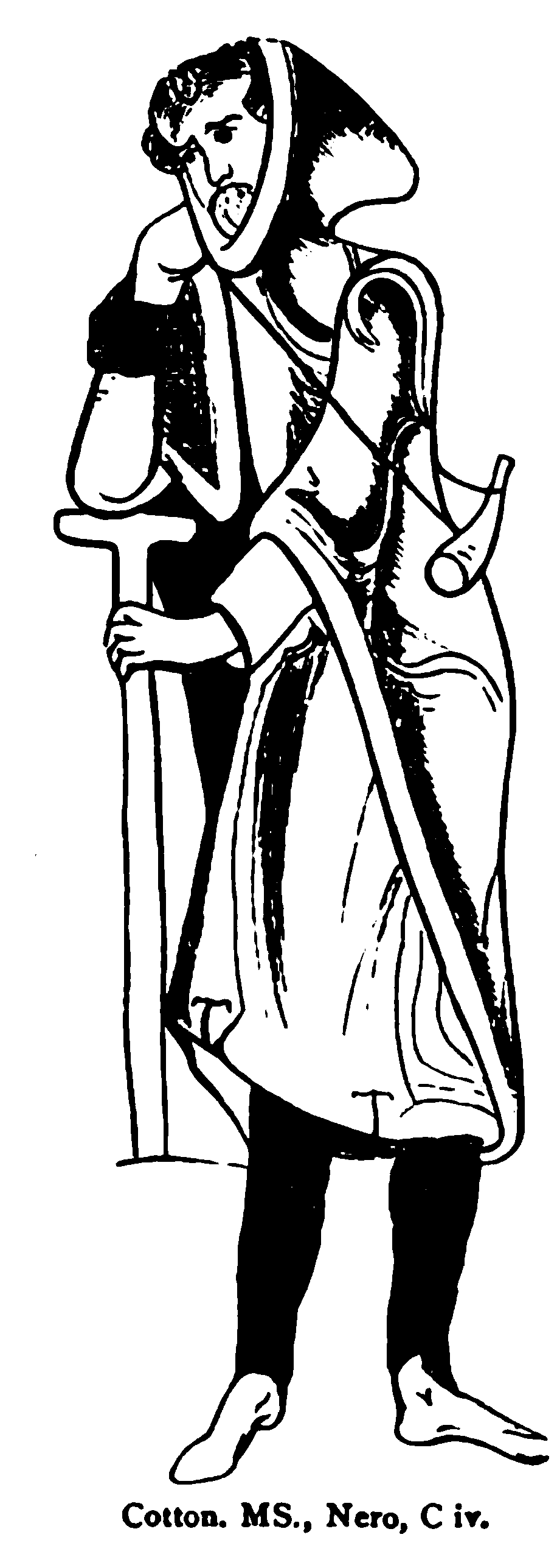 Hood in the 1100s